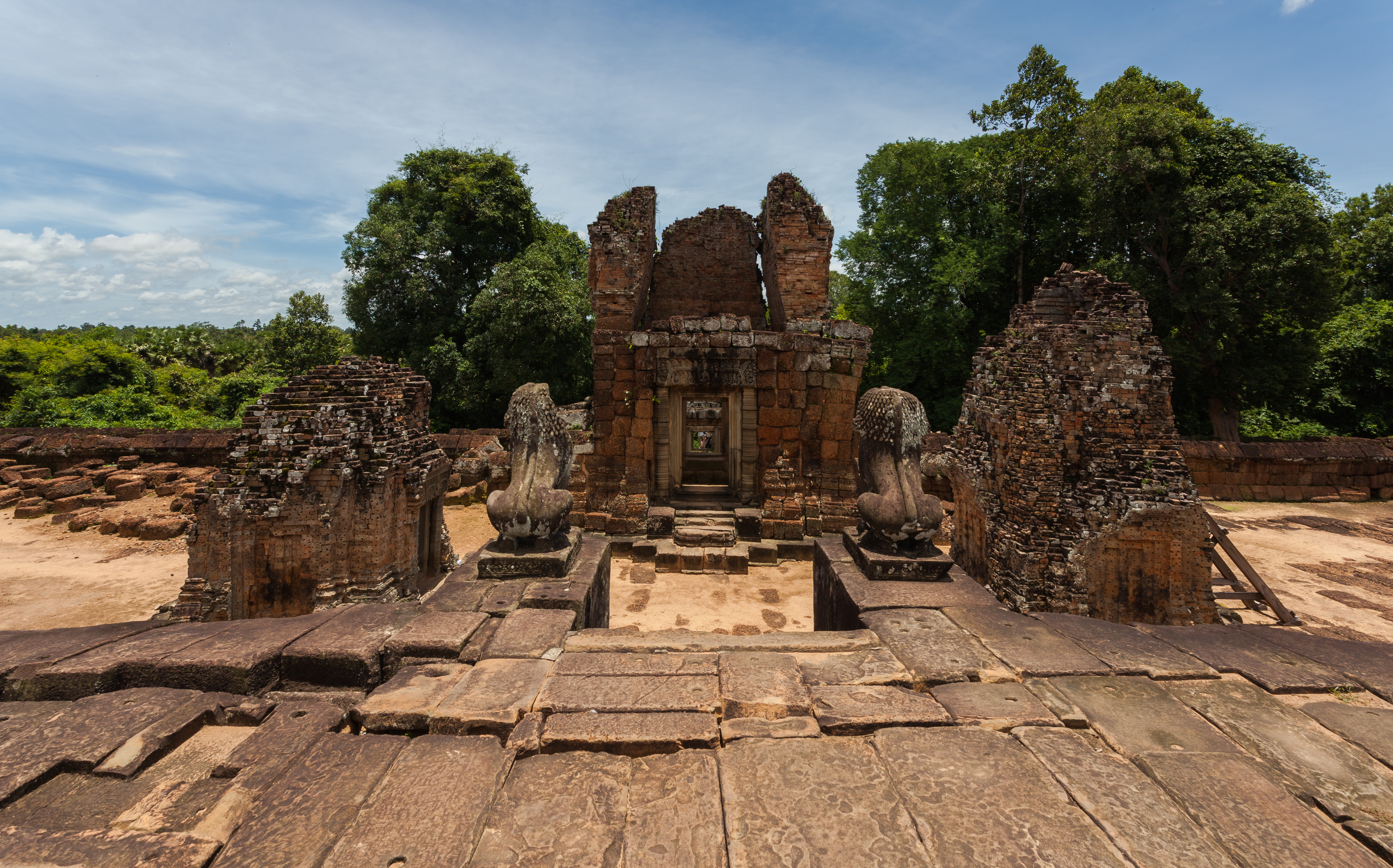 Mebon Oriental, Angkor, Cambodia